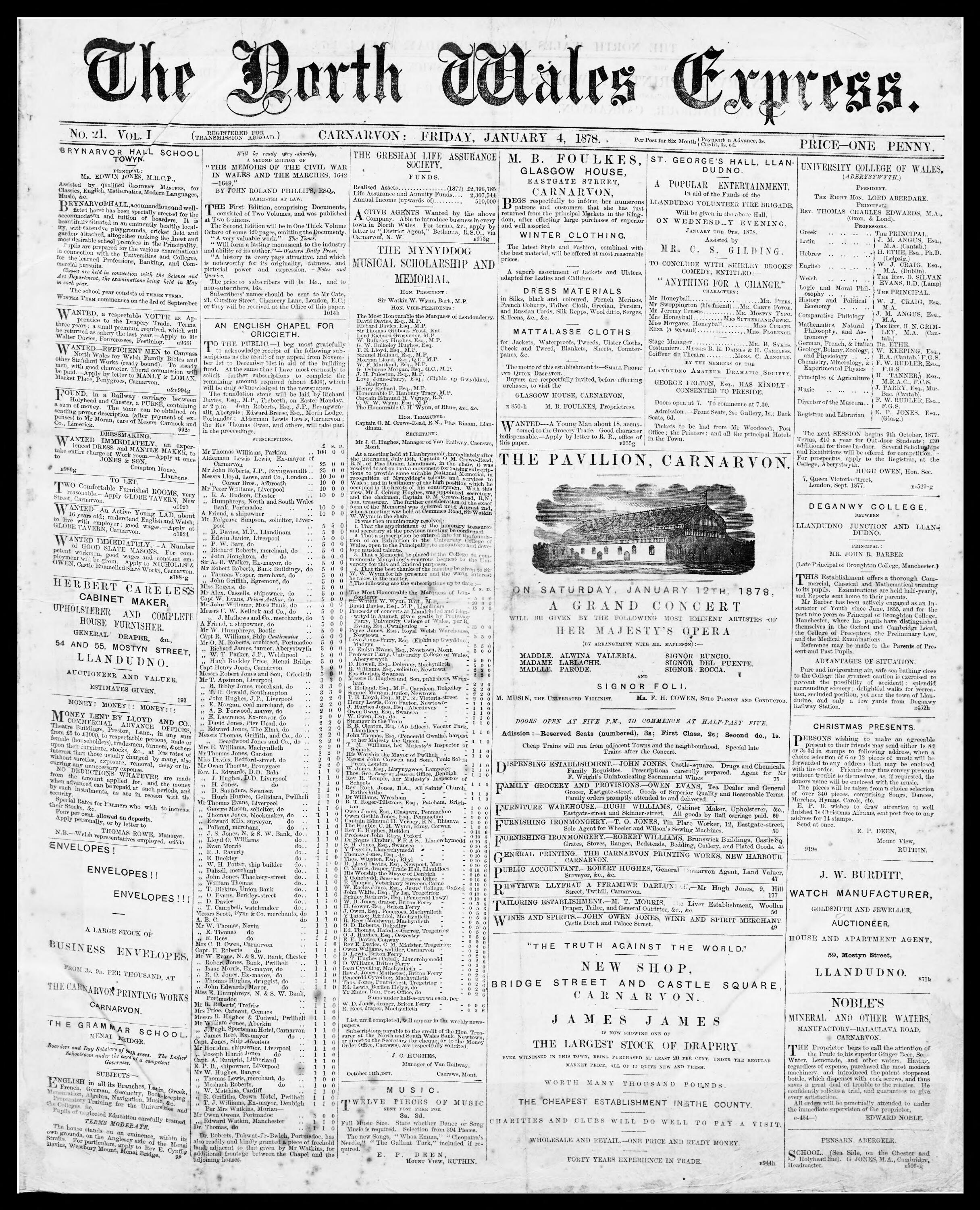 Front page of the earliest surviving copy of the Welsh newspaper The North Wales Express